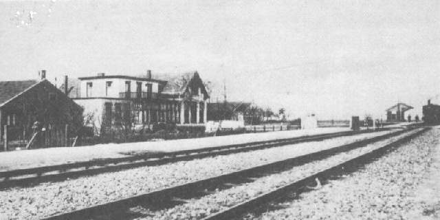 Train Station at Nieuw Scheemda / 't Waar in the Netherlands, in 1910